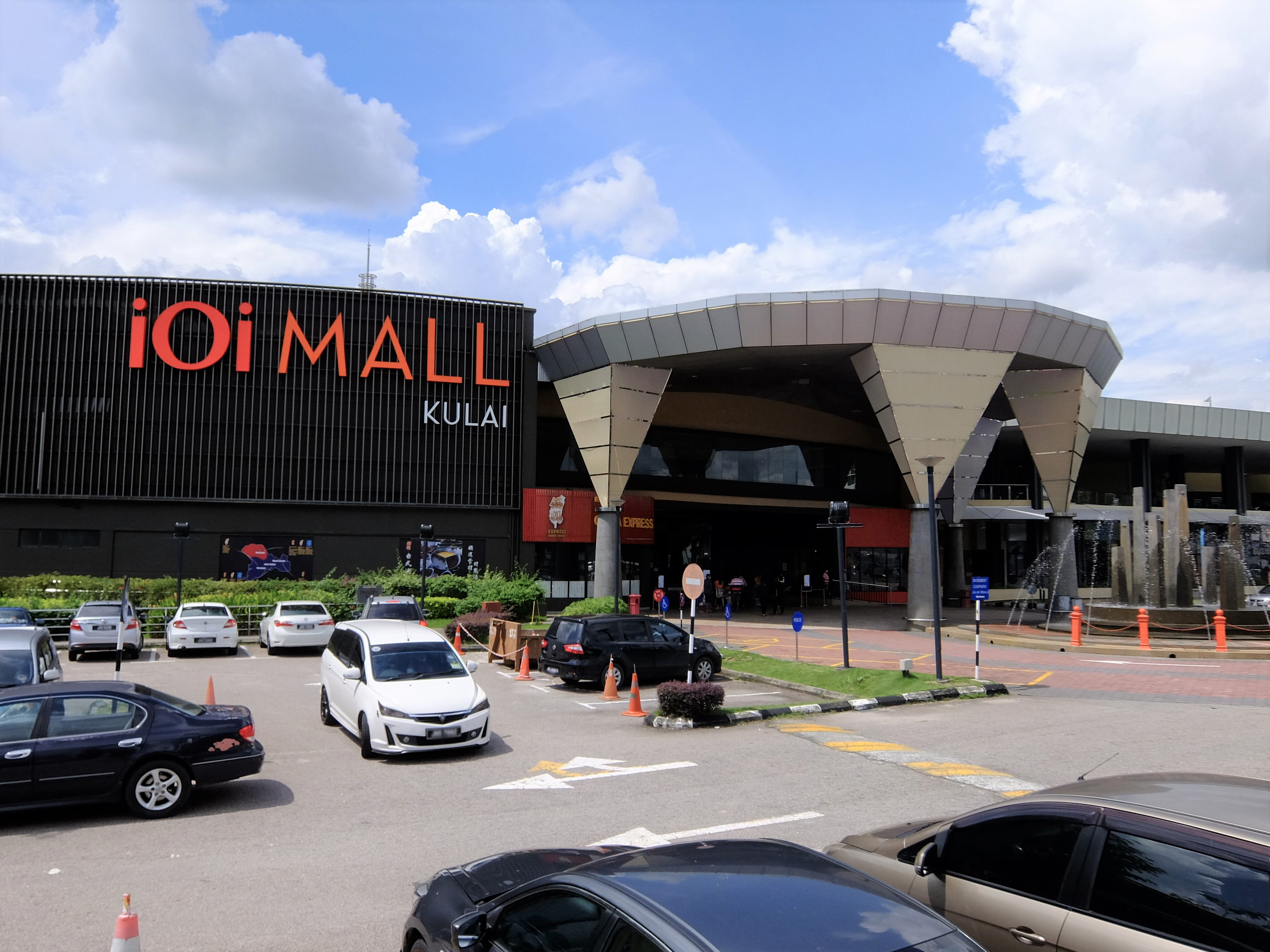 IOI Mall Kulai, Bandar Putra Kulai, Kulai, Johor, Malaysia